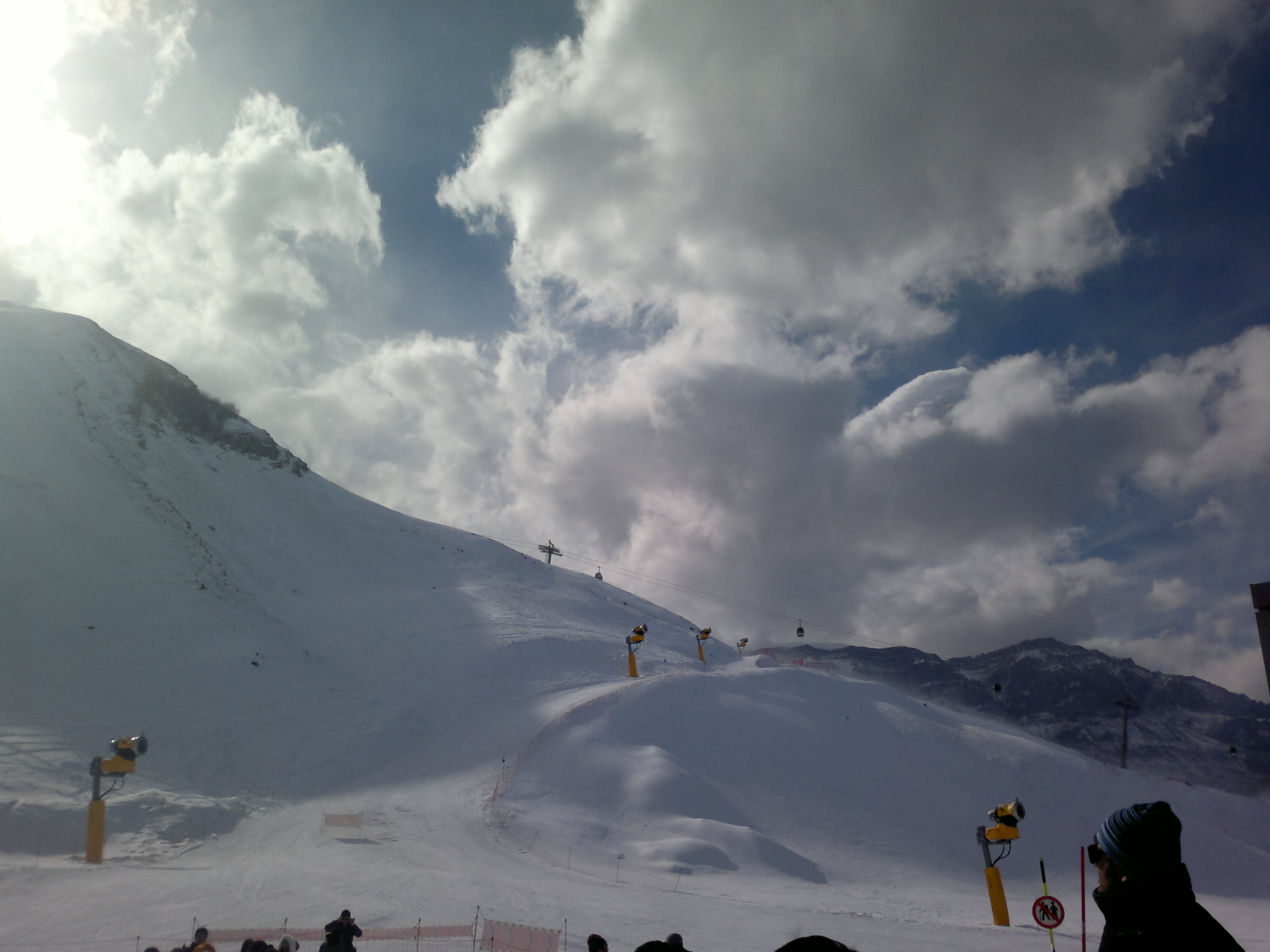 Shahdag Turism Center